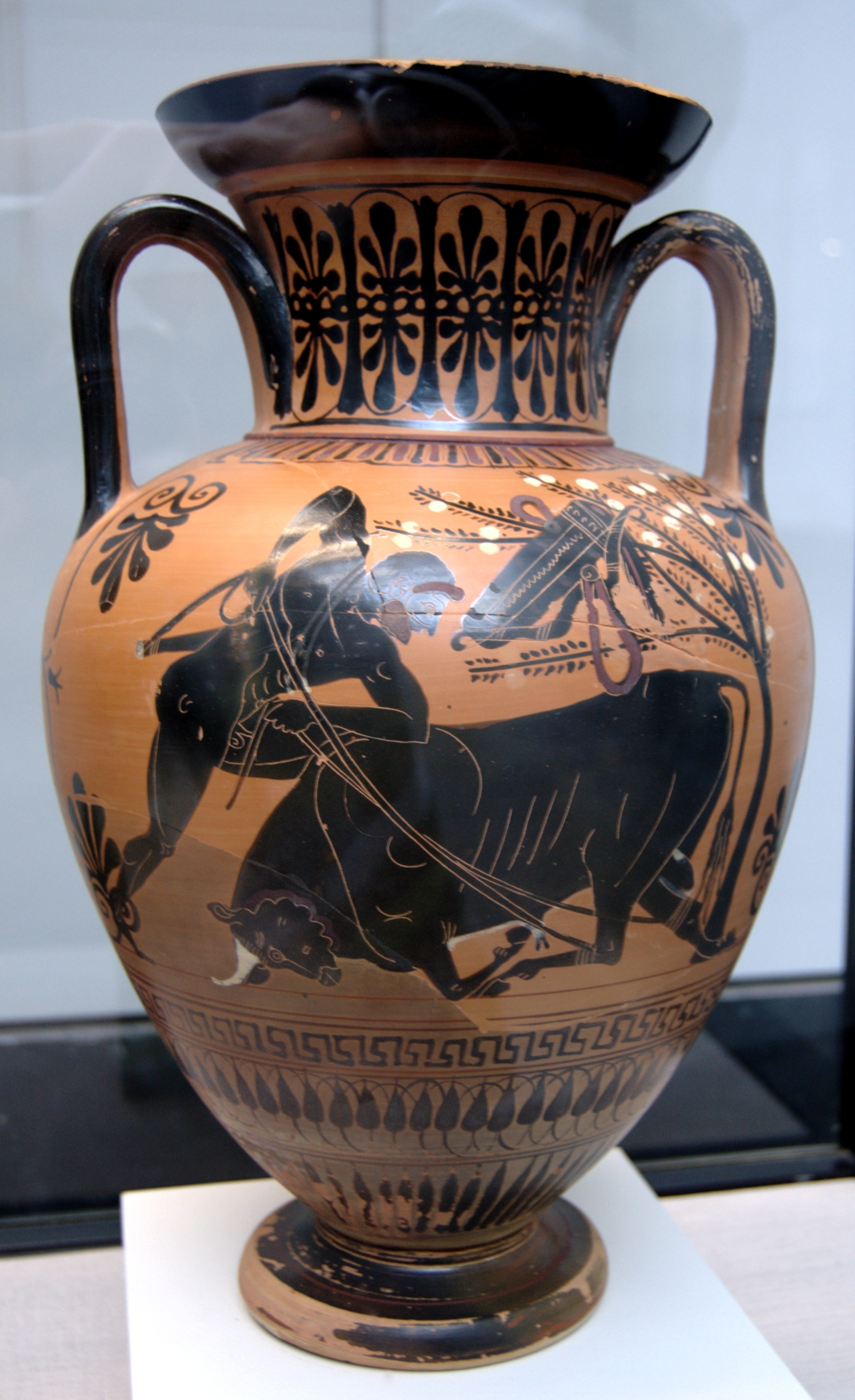 Heracles binds the Cretan bull. Attic black-figure amphora, ca. 510 BC. From Vulci.